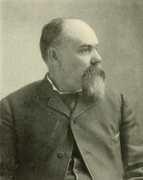 John J. Gardner in an 1899 publication